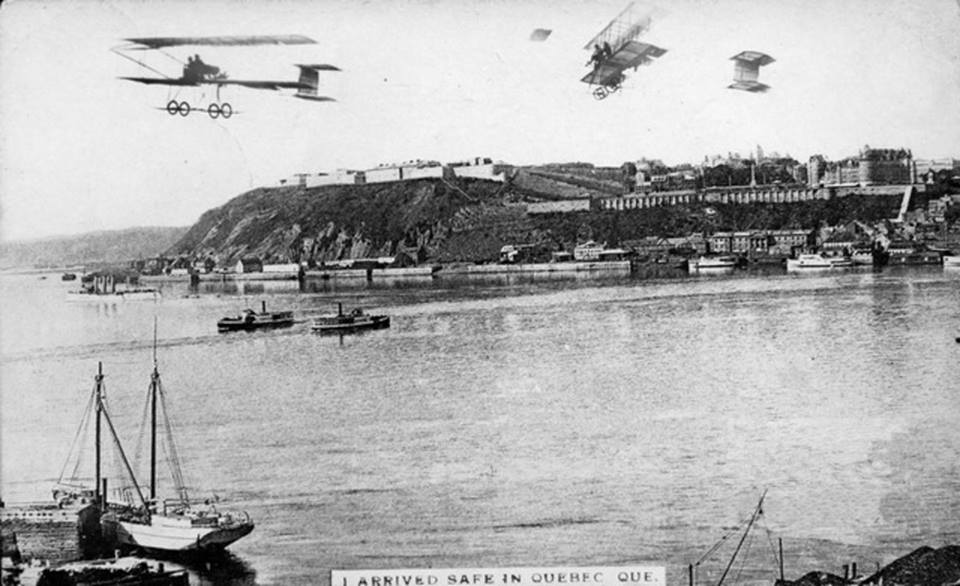 « I arrived safe in Quebec, Que. »